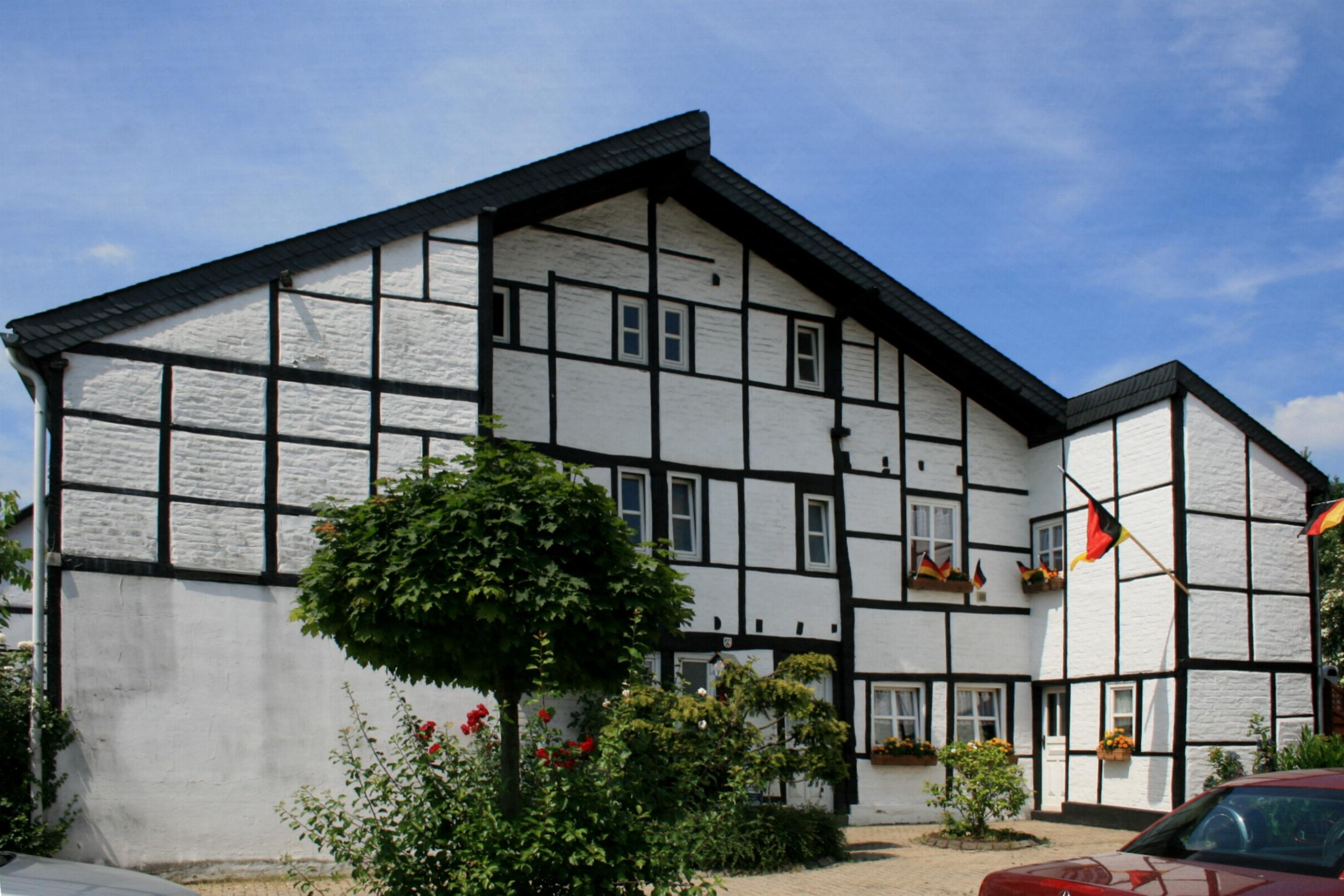 Cultural heritage monument No. U 007 in Mönchengladbach